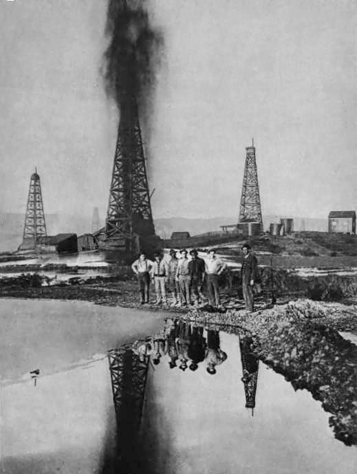 Lakeview Gusher #1, Maricopa, Kern County.